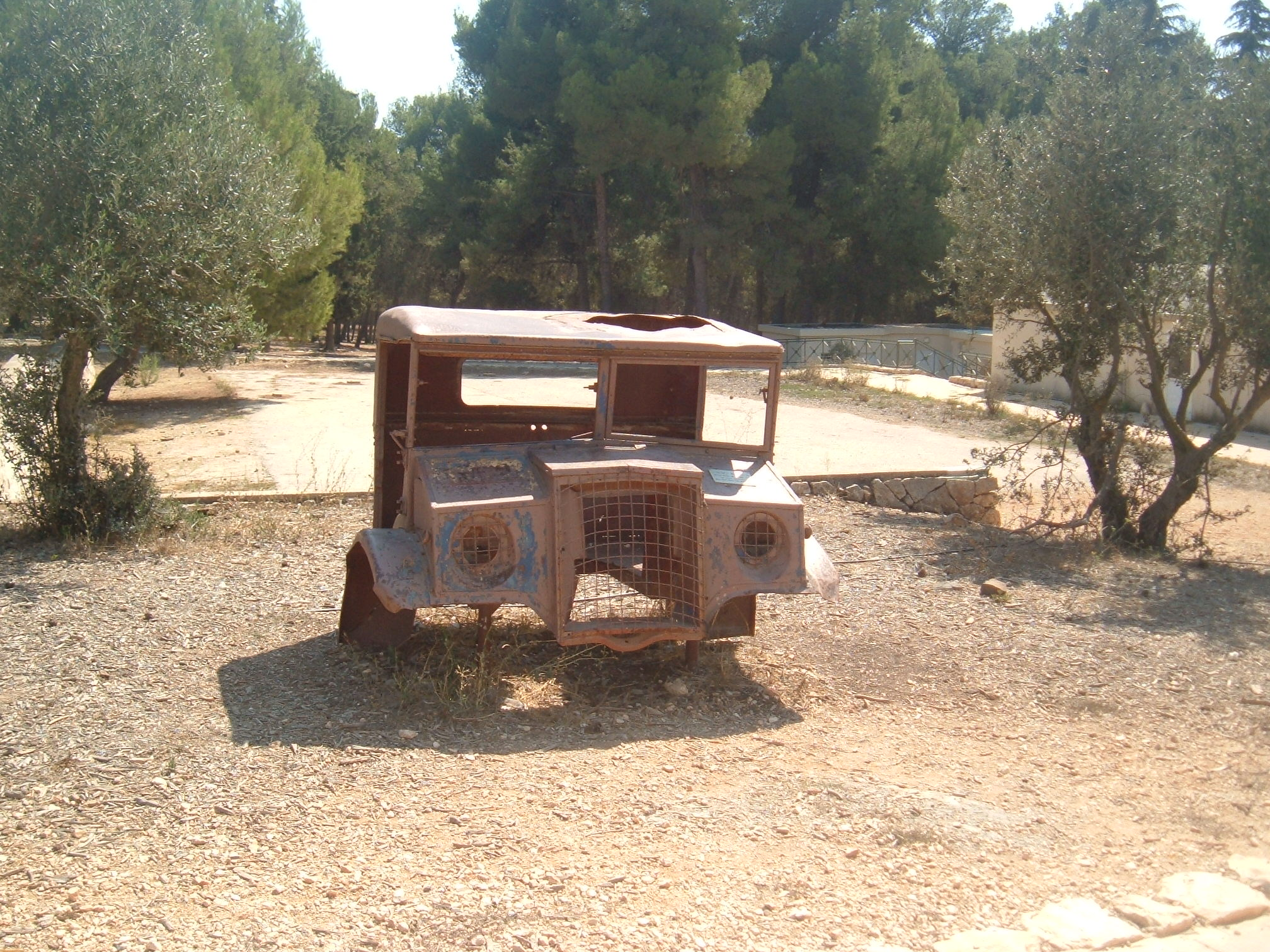 Driver's cabin of a British CMP (Canadian Military Pattern) truck displayed in front of birya fortress.